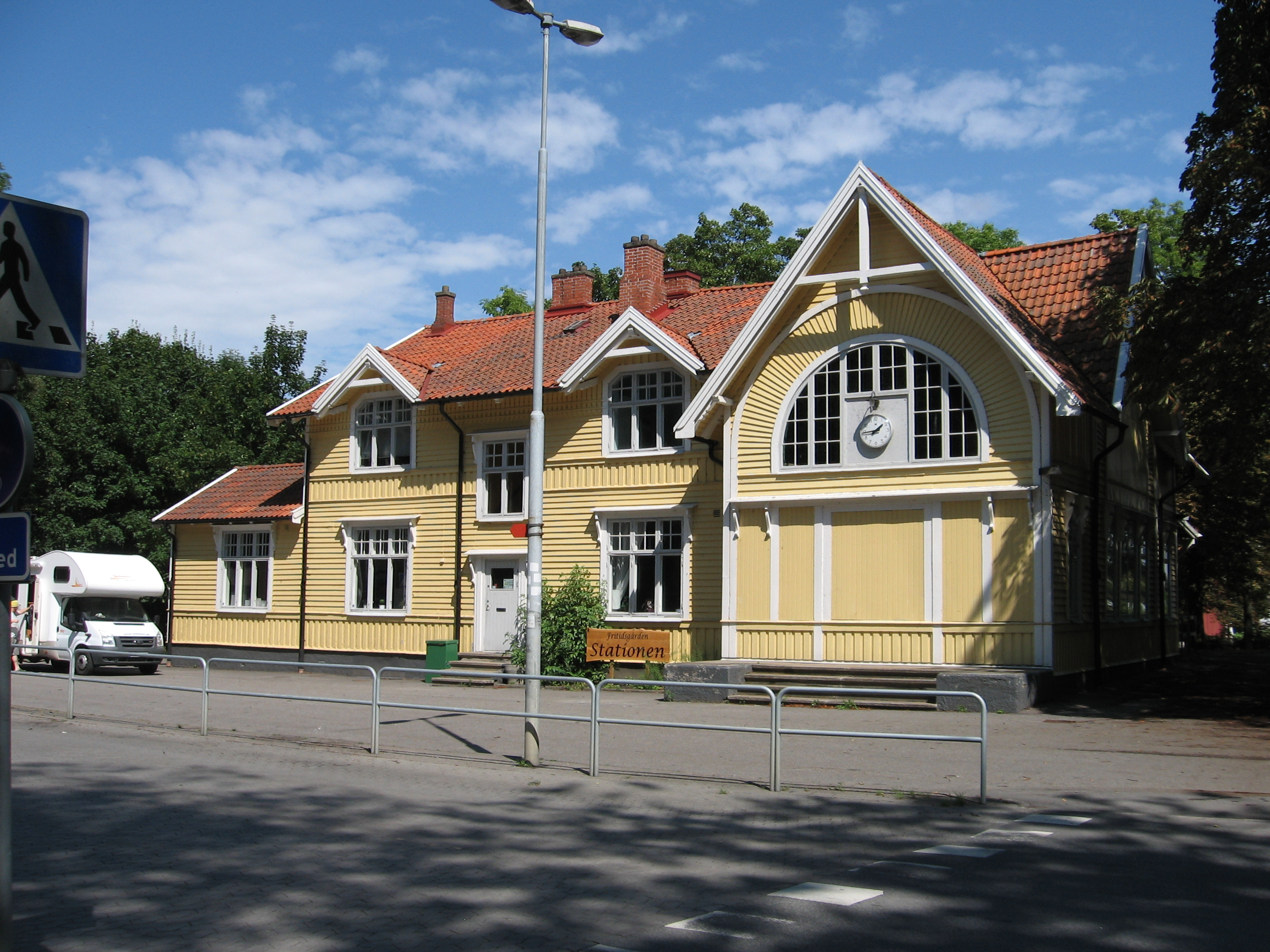 Railway station in Bjärred